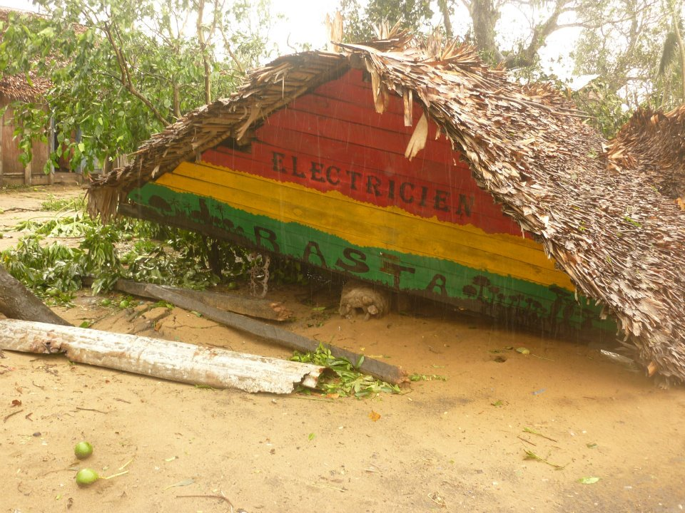 Suite au passage du cyclone Giovanna en 2012, Vatomandry a été détruite à 80%